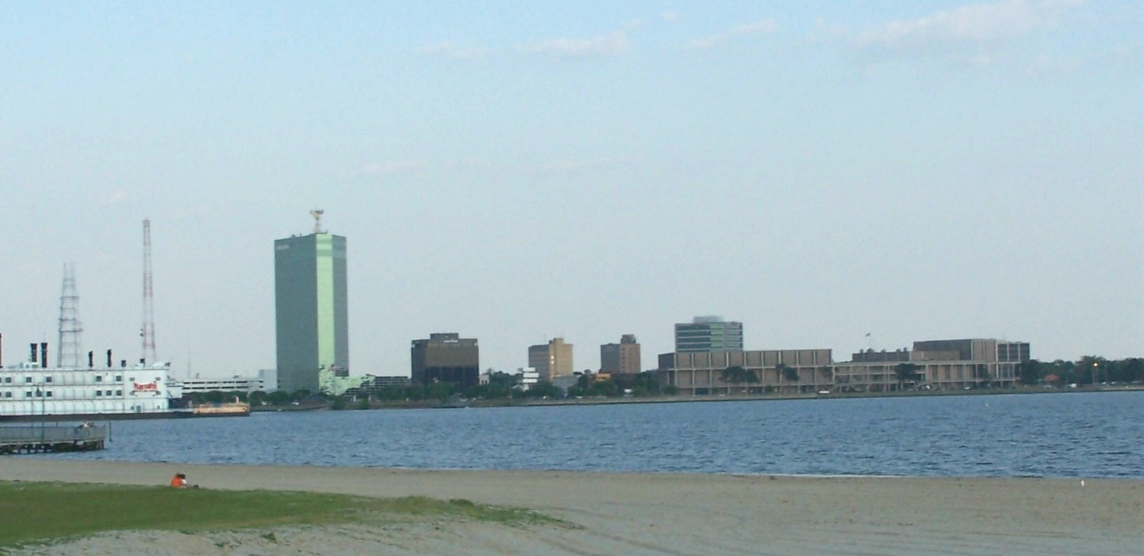 Downtown Lake Charles, Louisiana (USA)